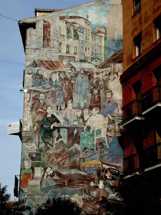 Mural Embajadores street 3, Madrid